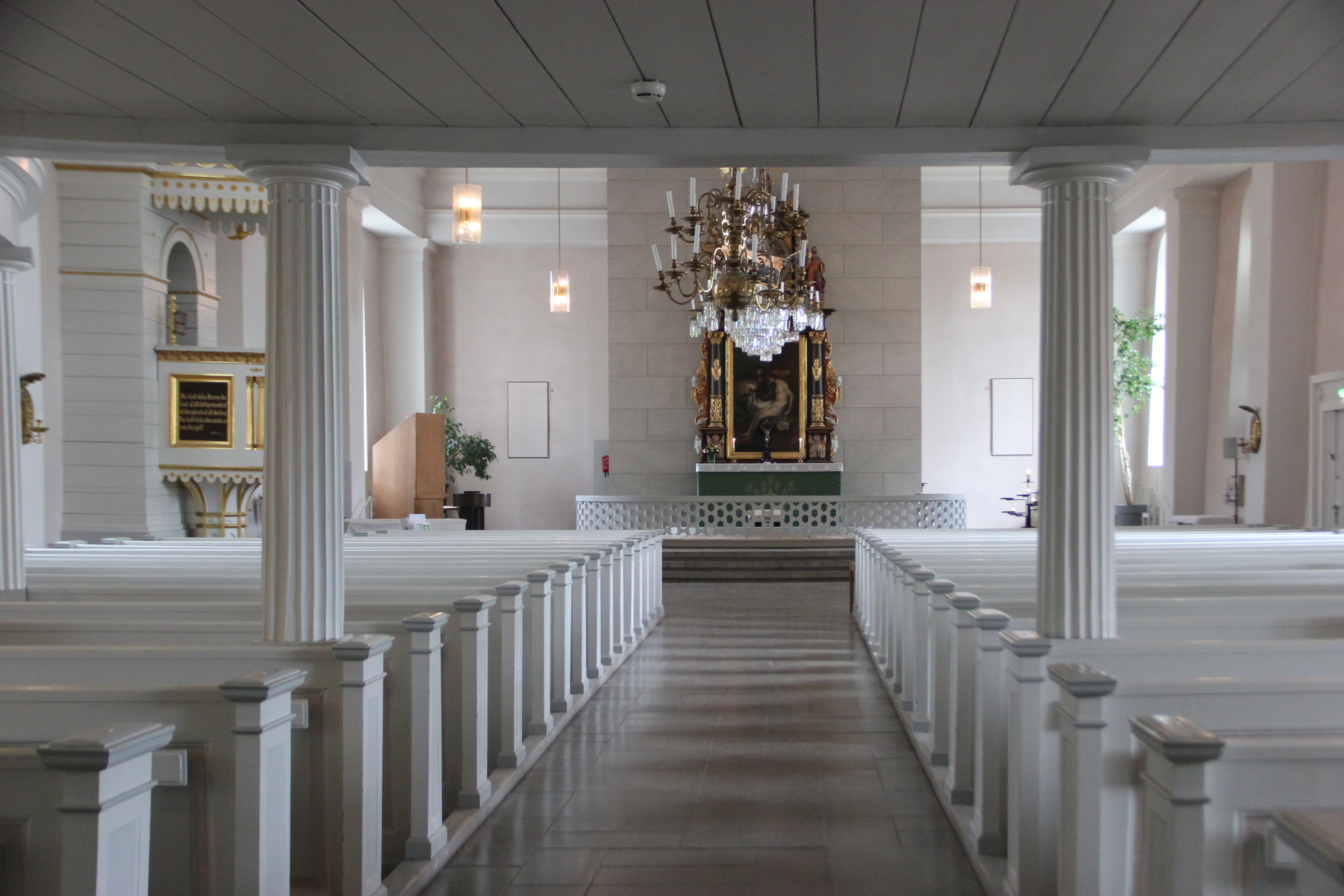 Church hall and the altar painting